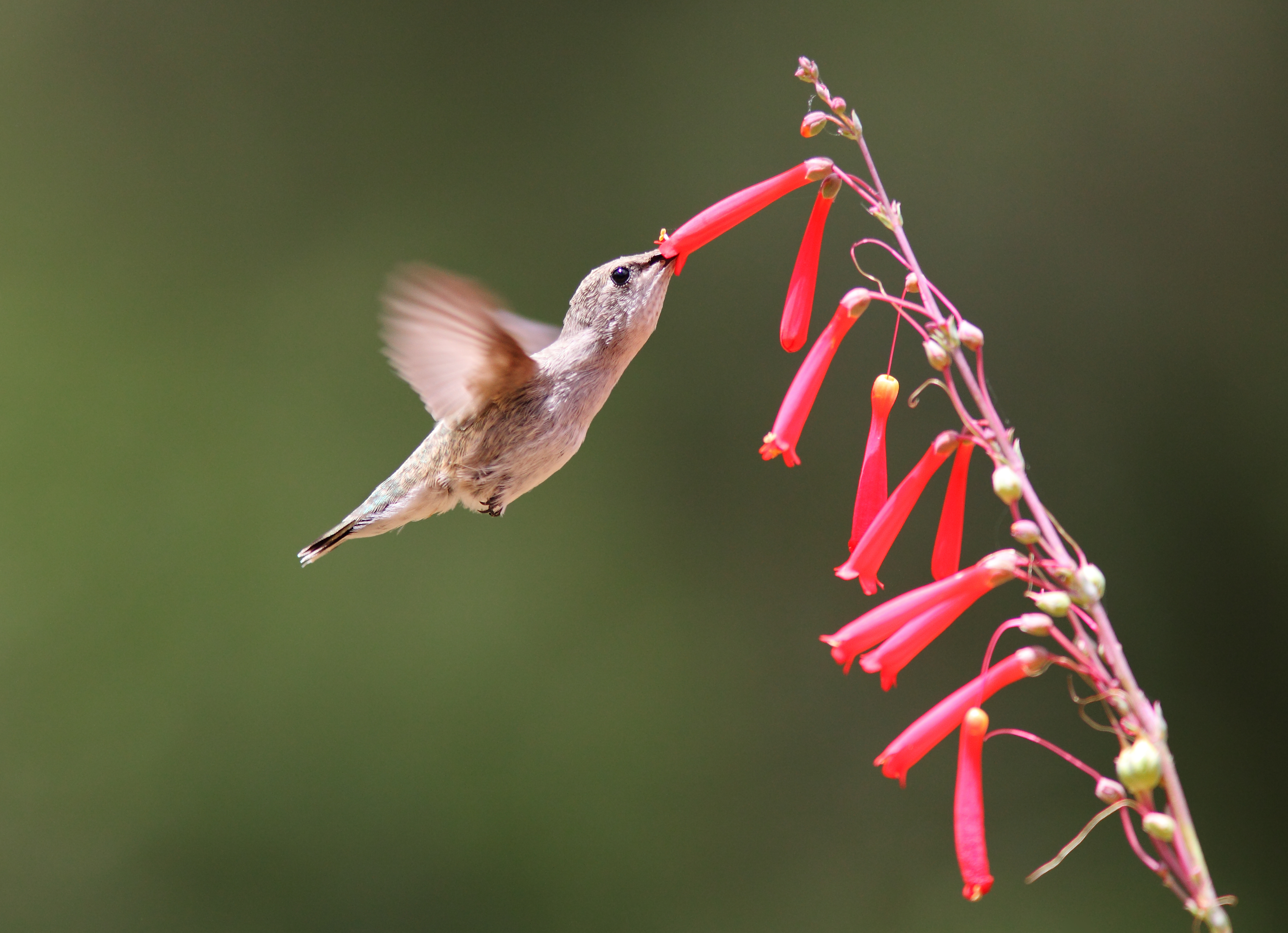 Black-chinned Hummingbird (Archilochus alexandri), juvenile female drinking nectar from Scarlet Bugler (Penstemon centranthifolius) Southern California